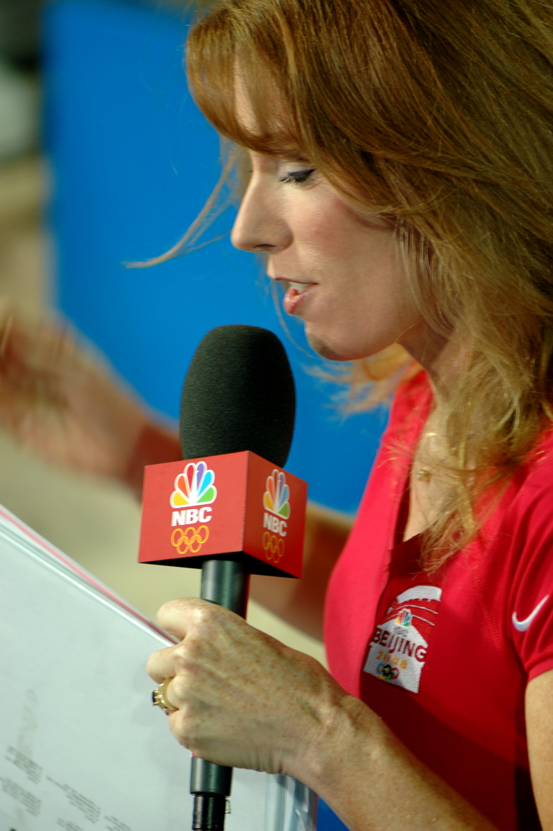 Heather Cox, NBC reporter at the 2008 Summer Olympics, in beach volleyball.